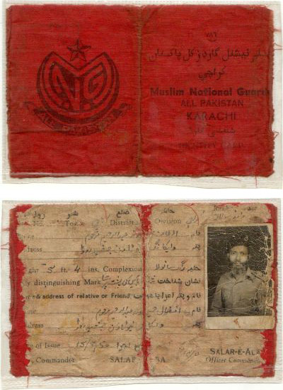 Identity card of Altaf Hussain issued by the Muslim National Guard on 15 May 1950 in Karachi, Pakistan.